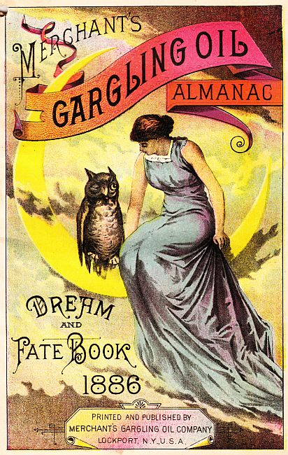 Front cover of an 1886 advertising almanac for Merchant's Gargling Oil of Lockport, N.Y., selling Liniments and Worm Tablets for Man and Beast.